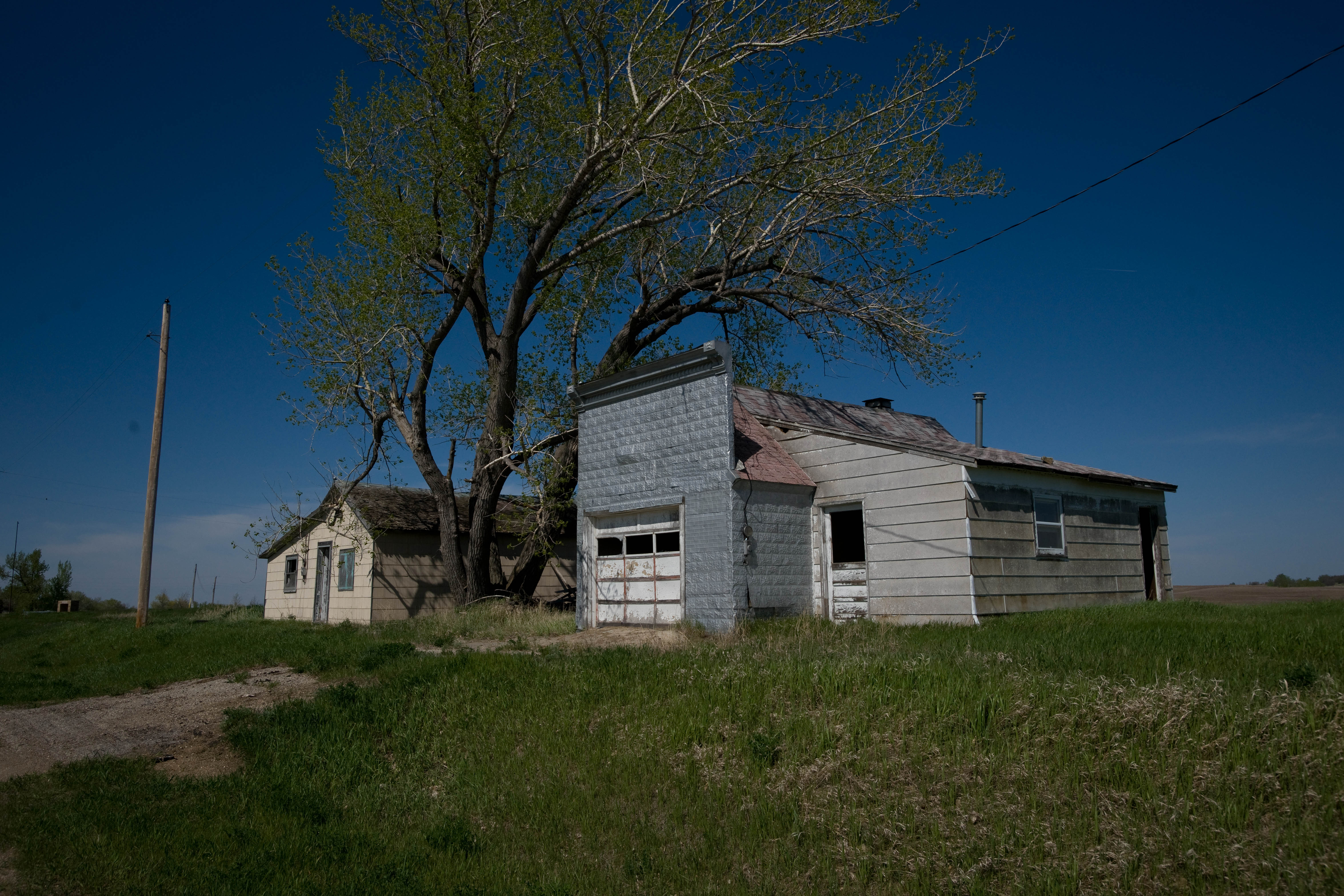 Building in Tagus, North Dakota